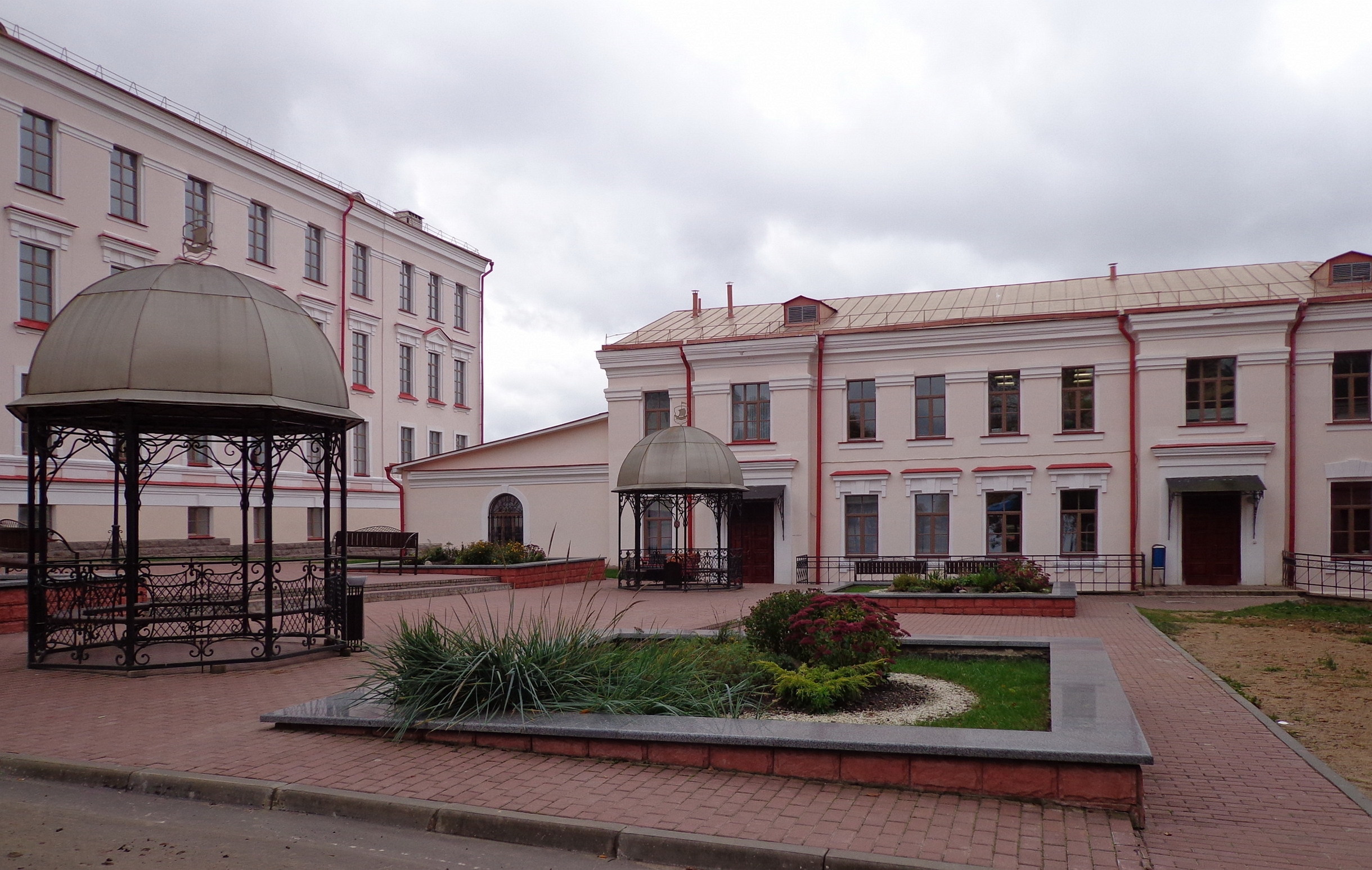 ПОЛАЦК. Унiверсiтэт / POLACK (Polotsk). University. (PSU.by)